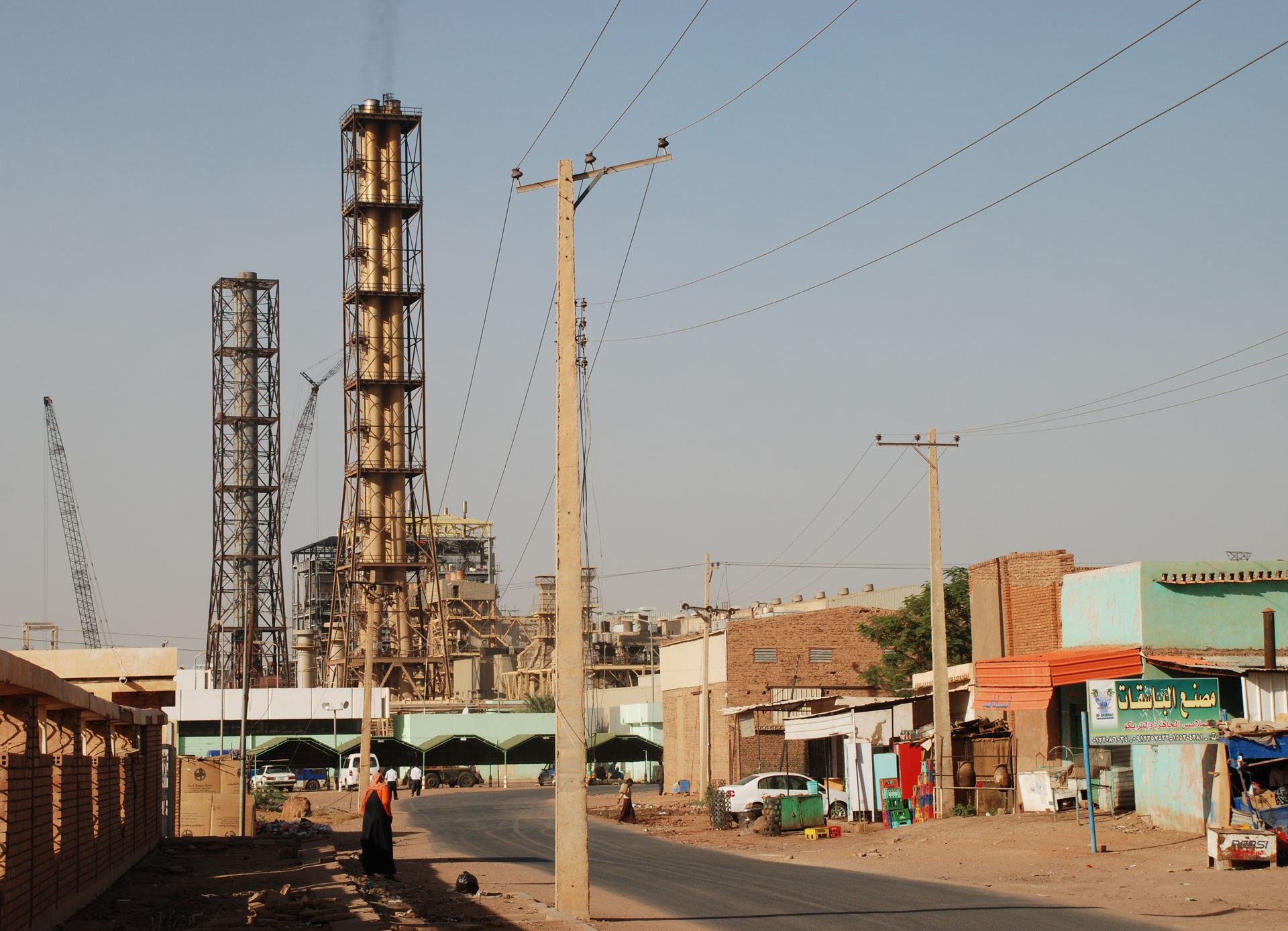 Khartoum north, industrial area, near Al-Shifa factory. Sudan